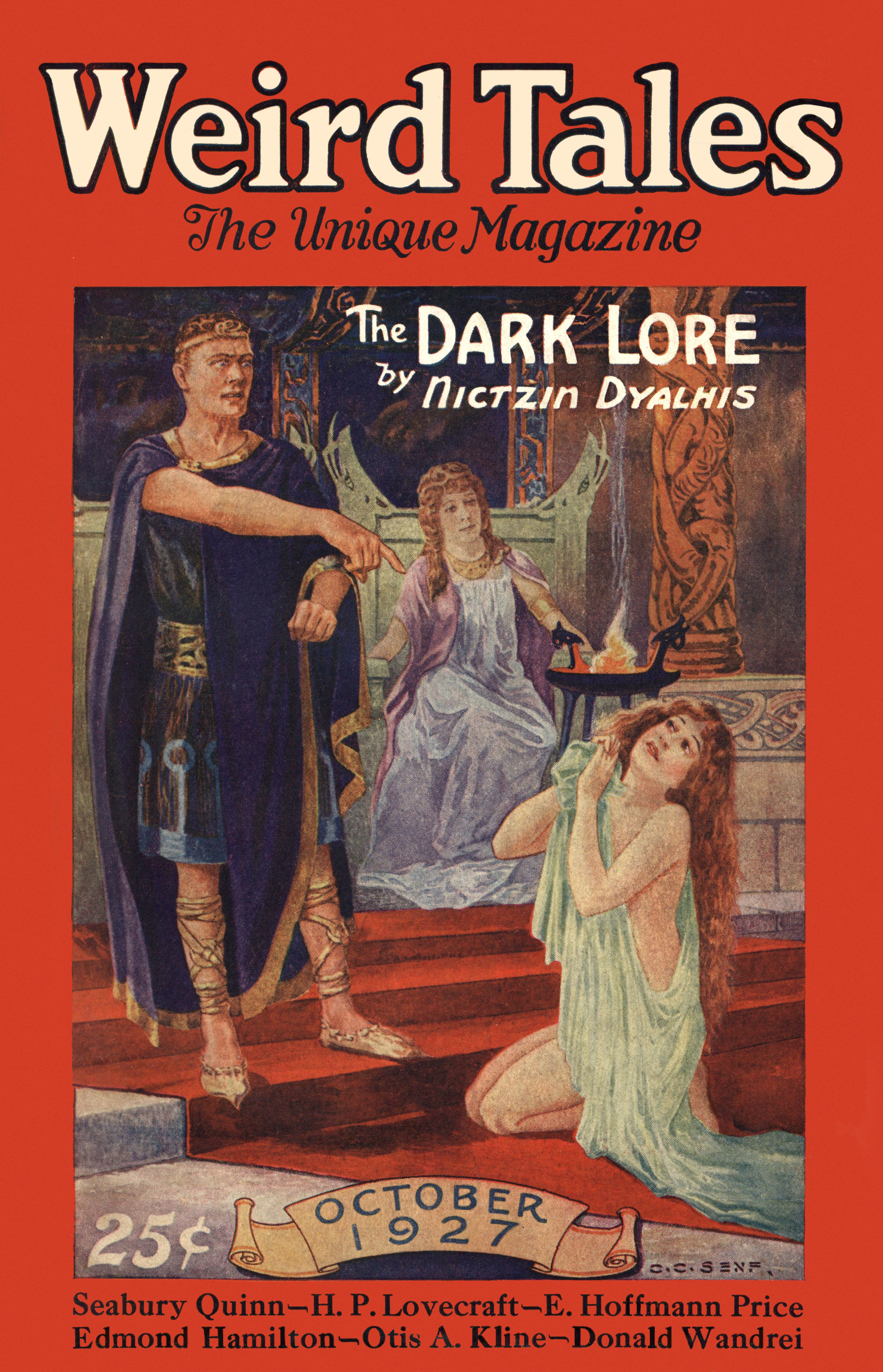 Cover of the pulp magazine Weird Tales (Oct 1927, vol. 10, no. 4) featuring The Dark Lore by Nictzin Dyalhis. Cover art by C. C. Senf.